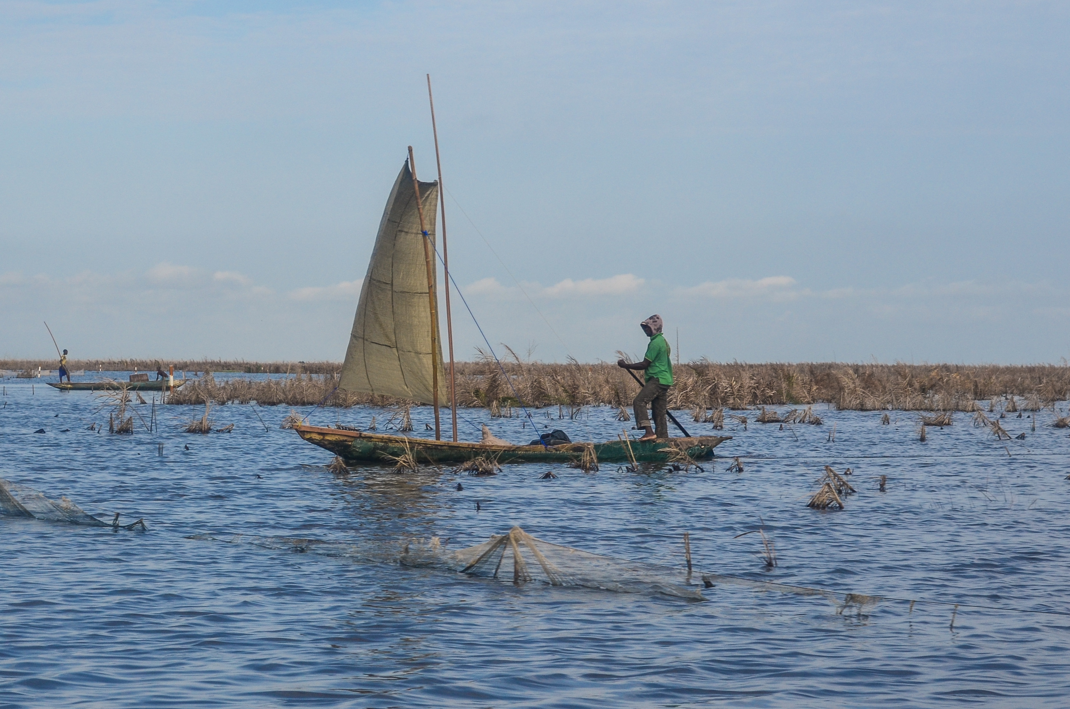 Taken on 05 October 2013 in Benin around Ganvié : Cycling Africa beyond mountains and deserts until Cape Town